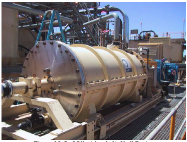 An IsaMill showing the split shell design that allows easy access for changing mill liners.